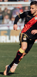 Real Valladolid - Rayo Vallecano, 18th fixture of the 2018-19 La Liga, January 5, 2019.